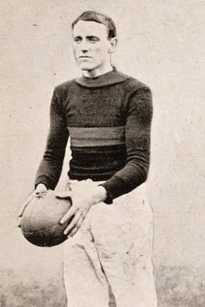 Photograph of Bill Luff from the 1910 Weekly Times Victorian Footballer Postcard Series